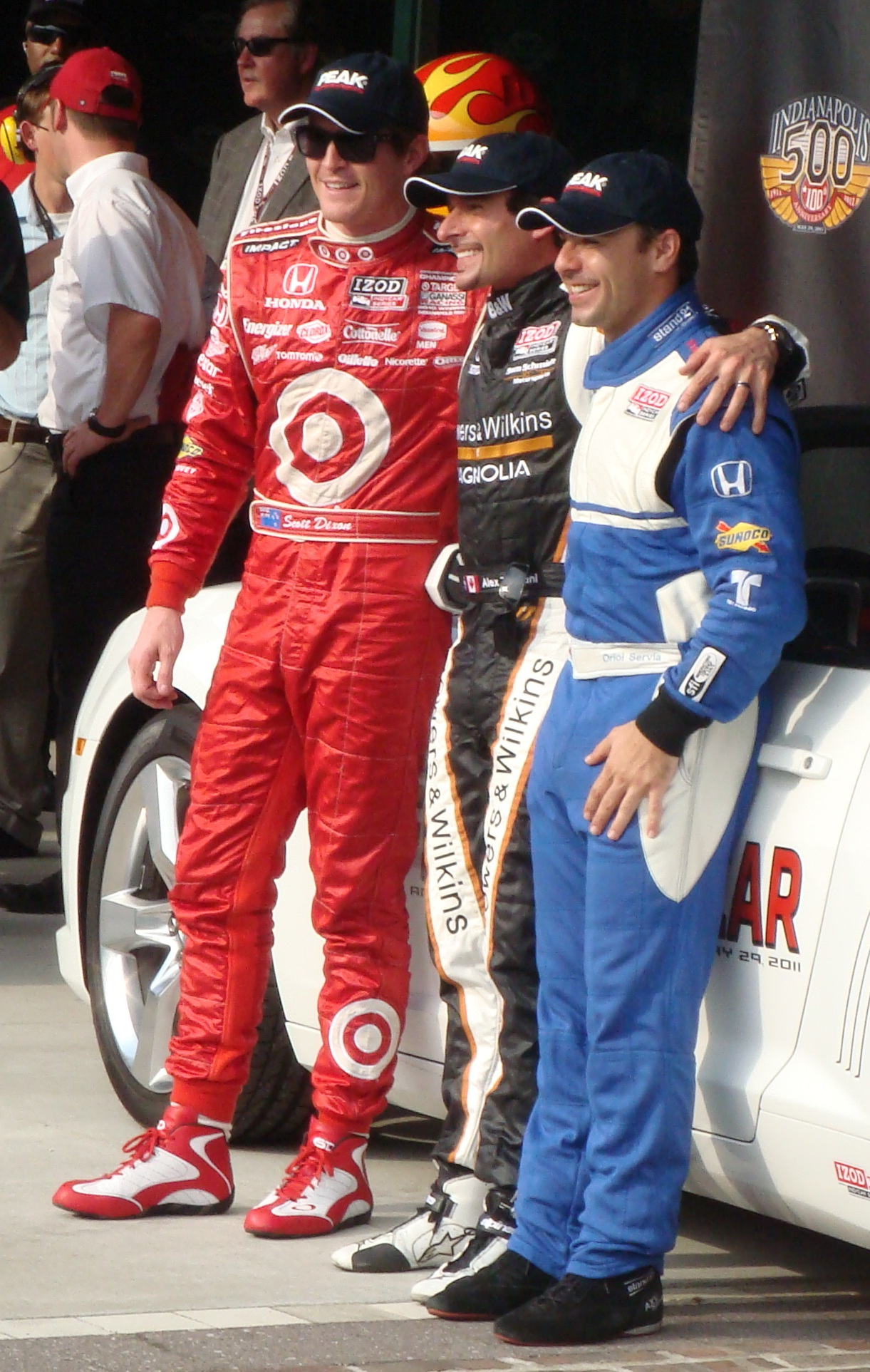 Front row qualifiers for the 2011 Indianapolis 500 (L to R): Scott Dixon (qualified 2nd), Alex Tagliani (1st), Oriol Servià (3rd).